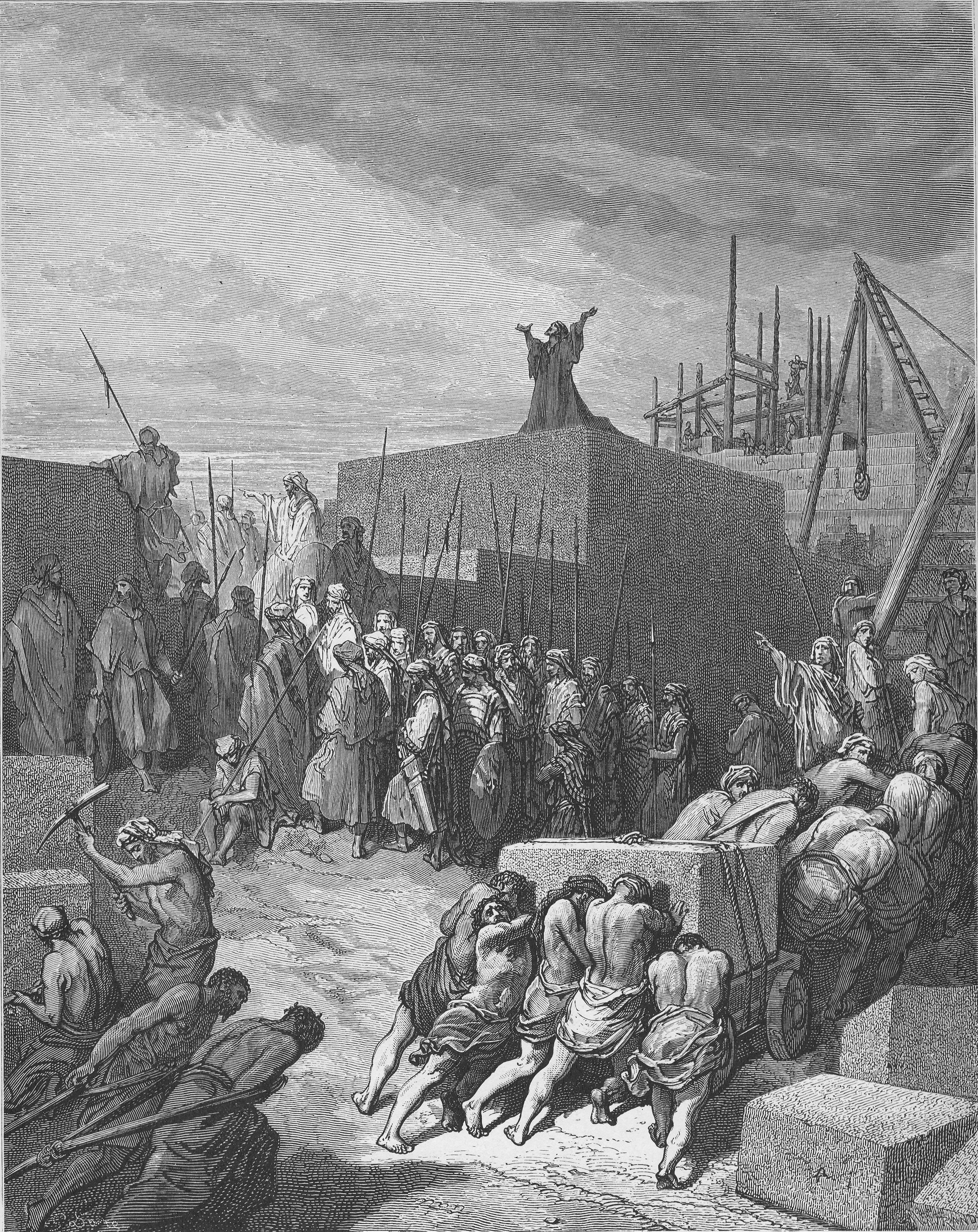 The Rebuilding of the Temple Is Begun (Ezr. 1:1-11)